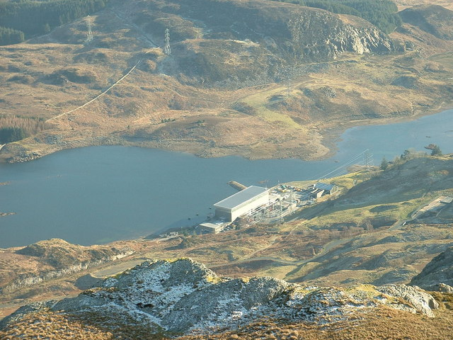 Ffestiniog Power Station Looking down from near the summit of Moel-yr-Hydd. This is a pumped storage station, using the reservoir to hold water to be pumped to a higher reservoir [Stwlan] during off-peak times, and released down through turbines to create electricity during peak times.